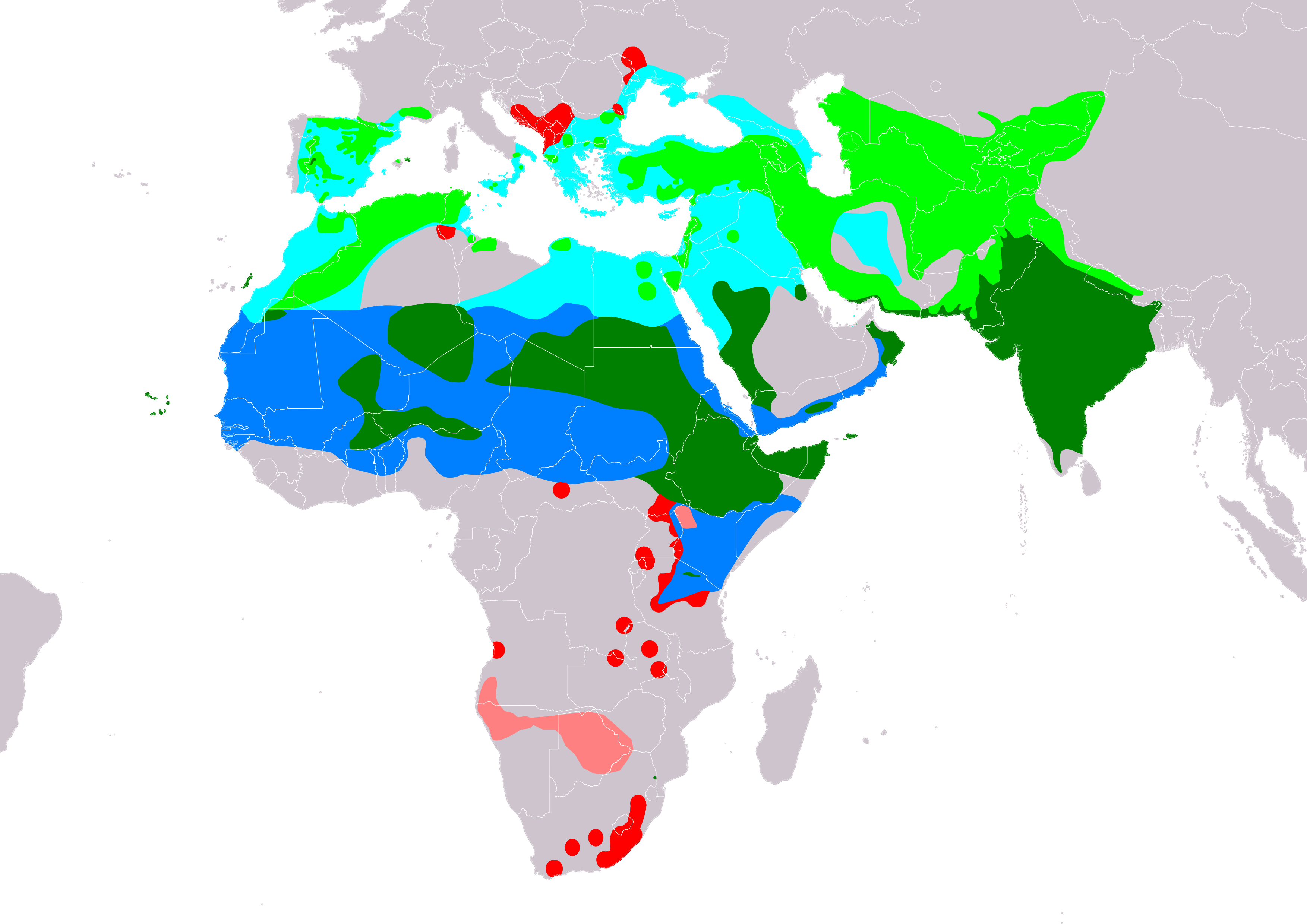 Distribution map of Egyptian Vulture (Neophron percnopterus) according to IUCN version 2019-3; key: Legend: Extant, breeding (#00FF00), Extant, resident (#008000), Extant, passage (#00FFFF), Extant, non-breeding (#007FFF), Extinct (#FF0000), Probably extinct (#FF8080)